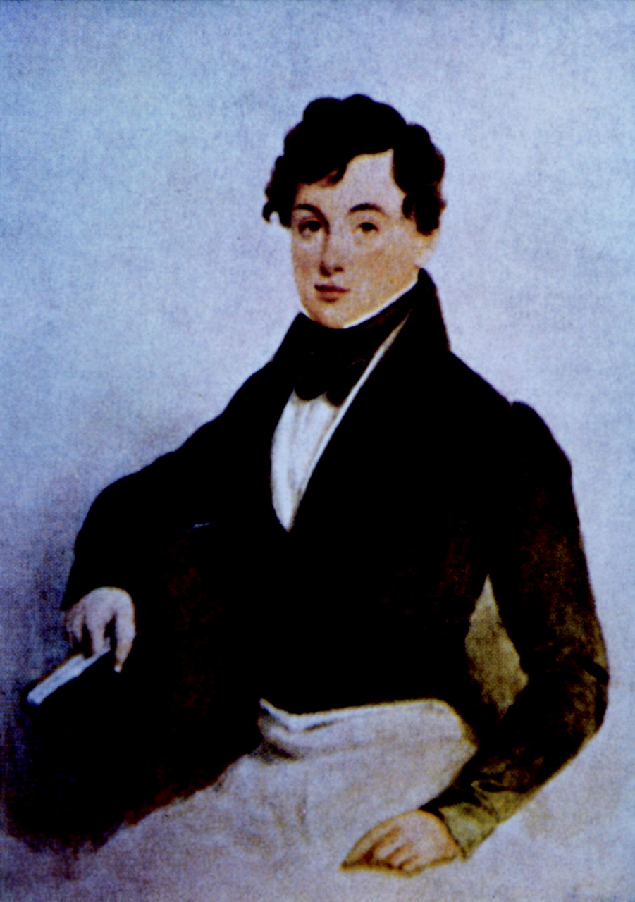 John Hutchinson (1811–1861) - inventor of the spirometr